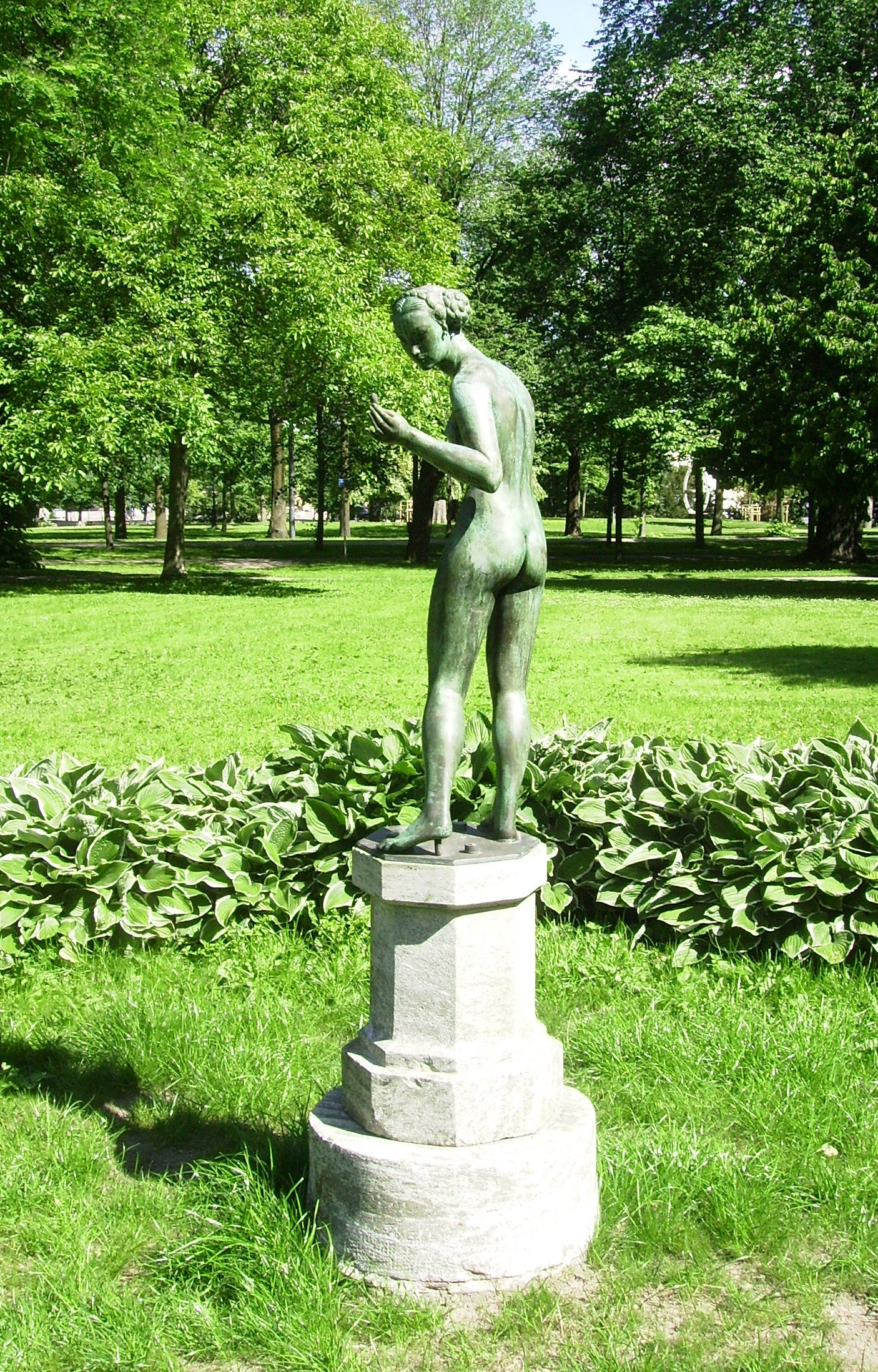 Picture of sculpture in Gothenburg, Krokus